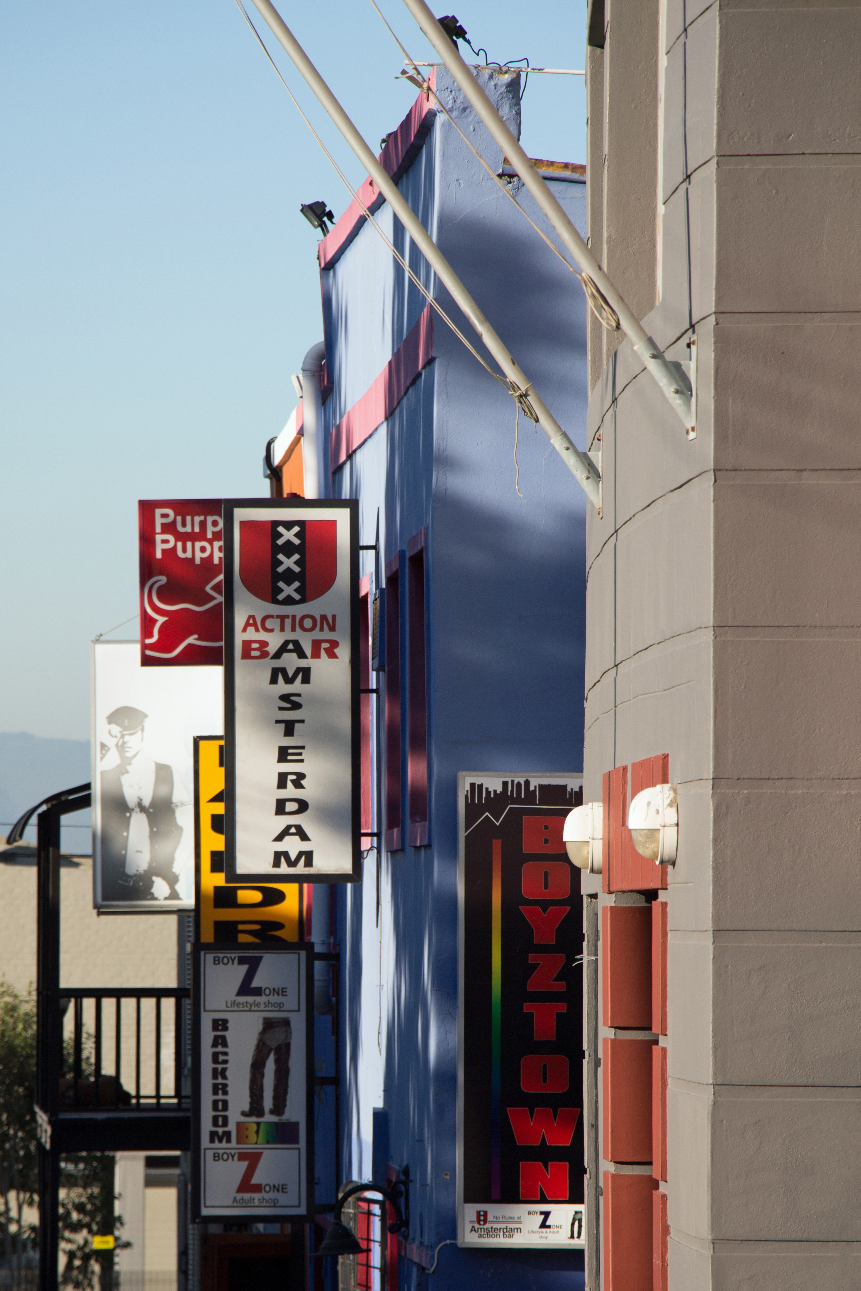 Boyztown, 10–14 Cobern Street, De Waterkant, Cape Town, South Africa. Boyztown on the city's "pink block" off Somerset Road incorporates two men-only gay bars (Amsterdam Action Bar and the Backroom Bar), Boyzone Adult Shop and Boyzone Lifestyle Shop. Bar Code, another men-only gay bar is in the background at 18 Cobern Street. The Purple Puppy laser cutting and engraving studio at 14 Cobern Street and a coin-operated laundrette at 16 Cobern Street are also in the picture.